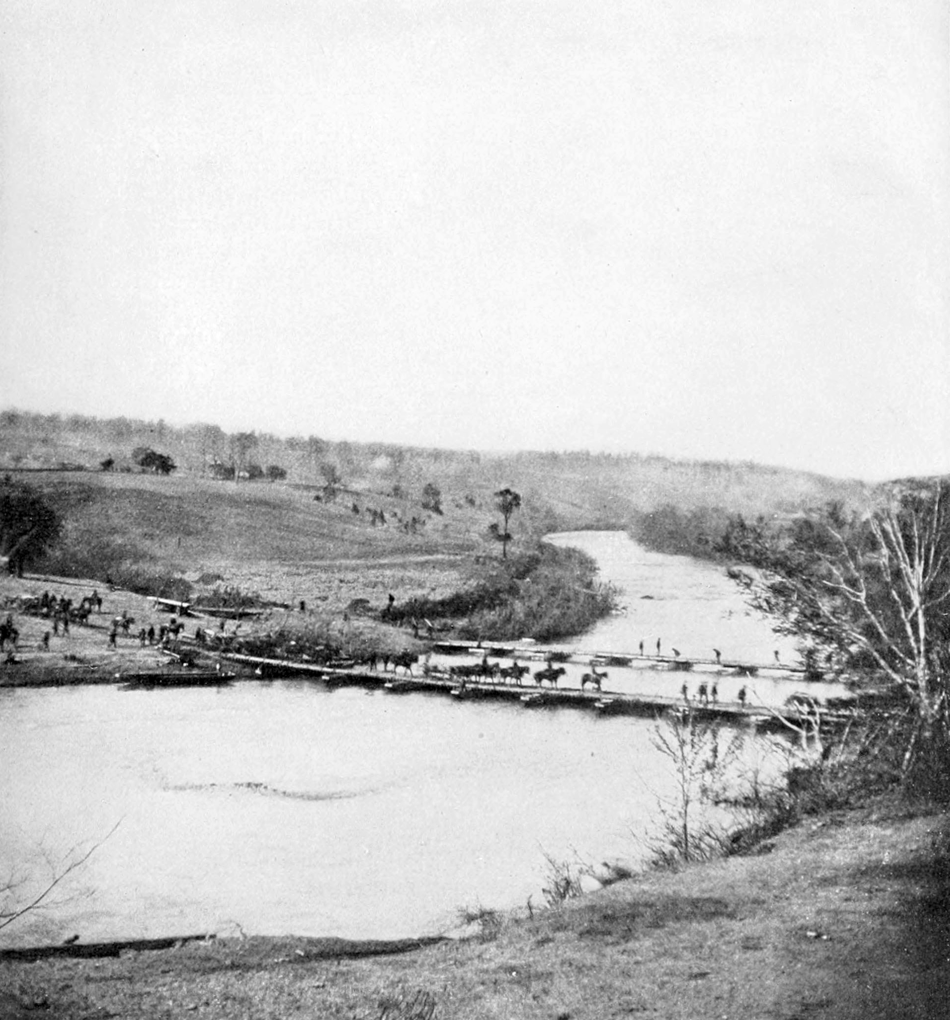 Title: The photographic history of the Civil War : thousands of scenes photographed 1861-65, with text by many special authorities Year: 1911 (1910s) Authors: Miller, Francis Trevelyan, 1877-1959 Lanier, Robert S. (Robert Sampson), 1880- Subjects: United States -- History Civil War, 1861-1865 Pictorial works United States -- History Civil War, 1861-1865 Publisher: New York : Review of Reviews Co. Text Appearing Before Image: wA fm WW m in t /M/ . ^^ Text Appearing After Image: THE GRAND CAMPAIGN UNDER WAY—THE DAY BEFORE THE BATTLE Pontoon-Bridges at Germanna Ford, on the Rapidan. Here the Sixth Corps vinder Sedgwick and Warrens Fifth Corps began crossingon the morning of May 4, 1864. The Second Corps, under Hancock, crossed at Elys Ford, farther to the east. The cavalry, underSheridan, was in advance, hy night the army, with the exception of Burnsides Ninth Corps, was south of the Rapidan, advancing intothe Wilderness. The Ninth Corps (a reserve of twenty thousand men) remained temporarily north of the Rappahannock, guardingrailway communications. On the wooden pontoon-bridge the rear-guard is crossing while the pontonniers are taking up the canvas bridgebeyond. The movement was magnificently managed; Grant believed it to be a complete surprise, as Lee had offered no opposition.That was yet to come. In the baffling fighting of the Wilderness and Spotsylvania Court House, Grant was to lose a third of his superiornumber, arriving a month later on the James